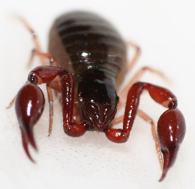 Neobisium sylvaticum species of pseodoscorpions (Pseudoscorpiones: Neobisiidae)